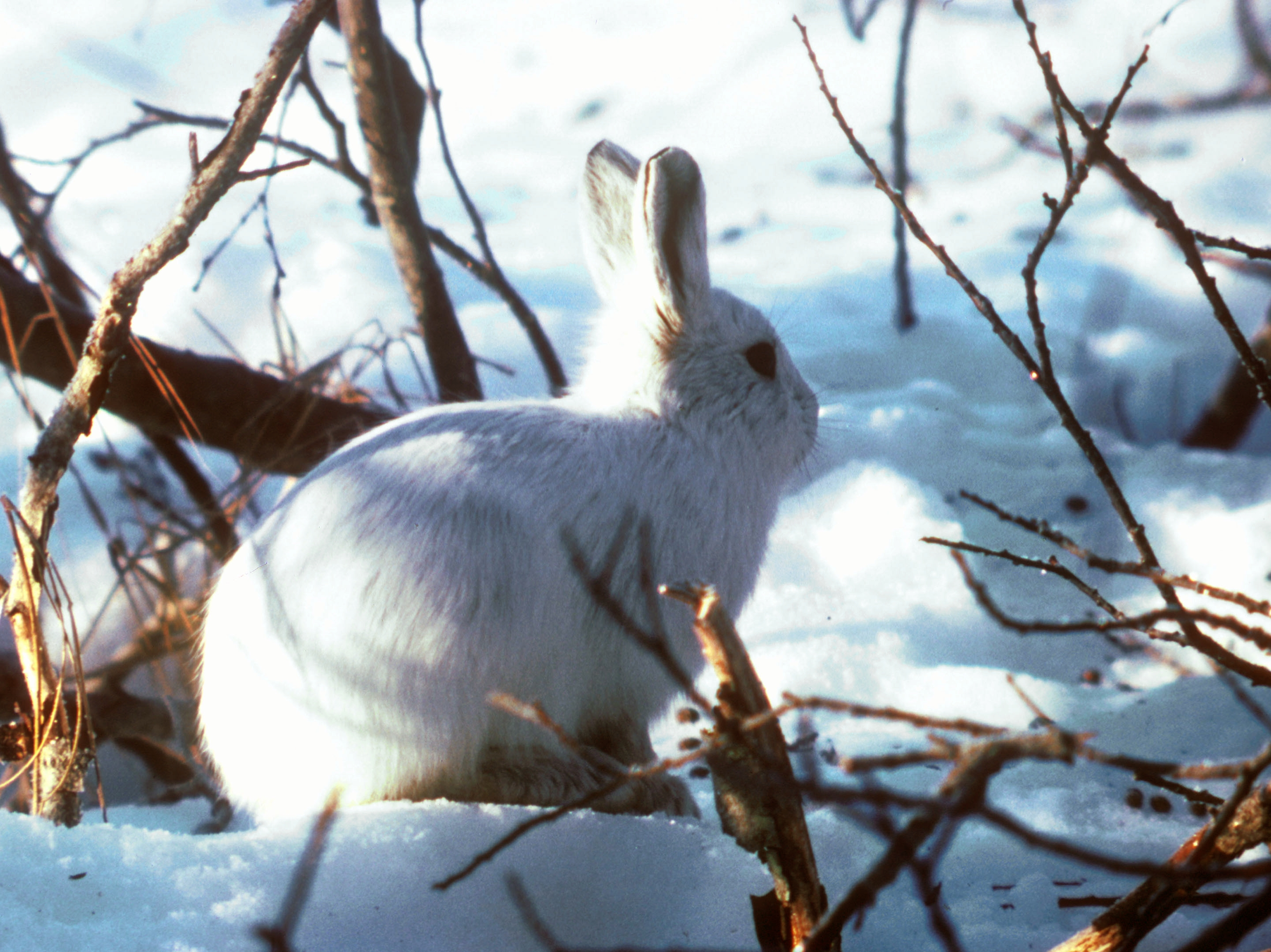 Alaskan Hare U.S. Fish and Wildlife Service